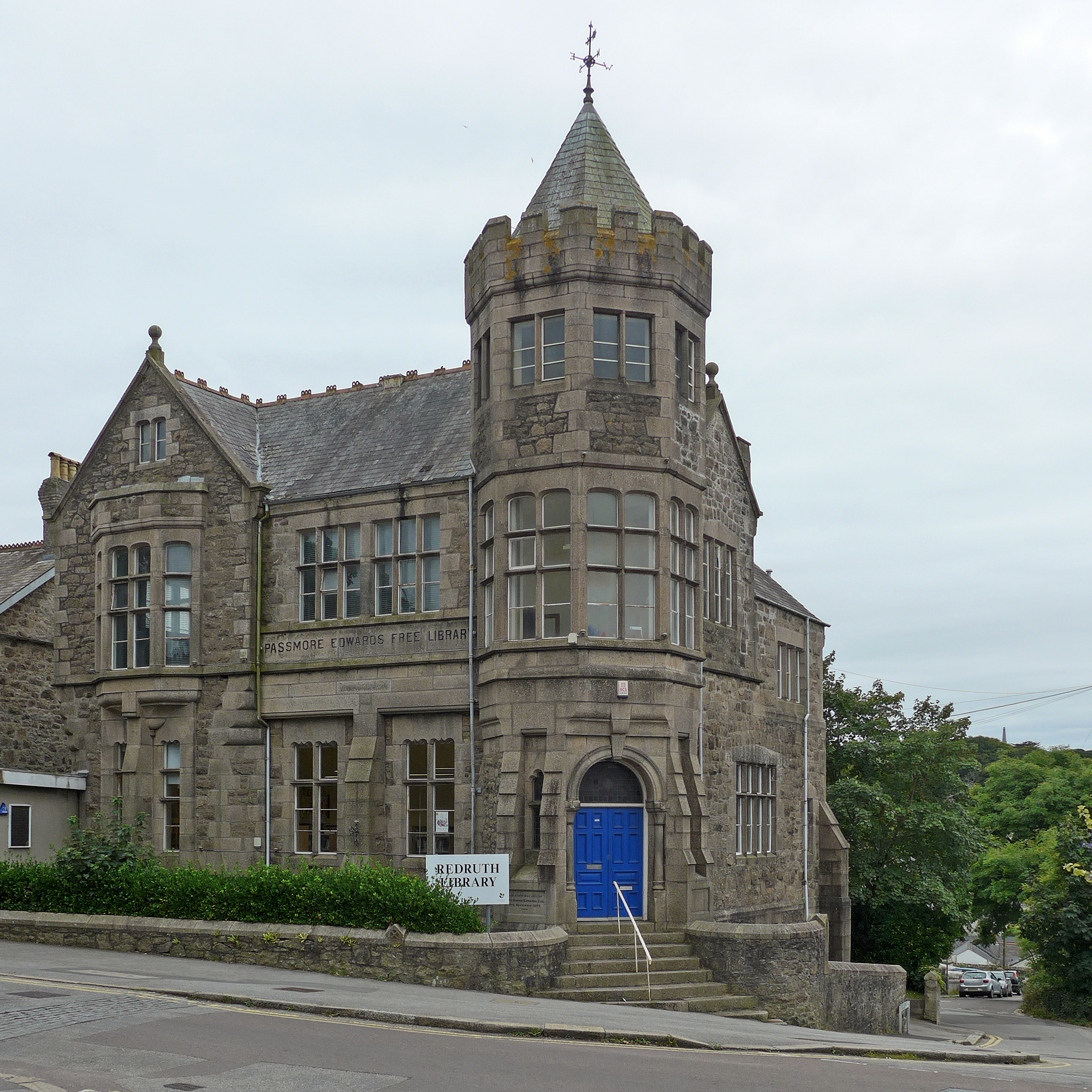 Redruth